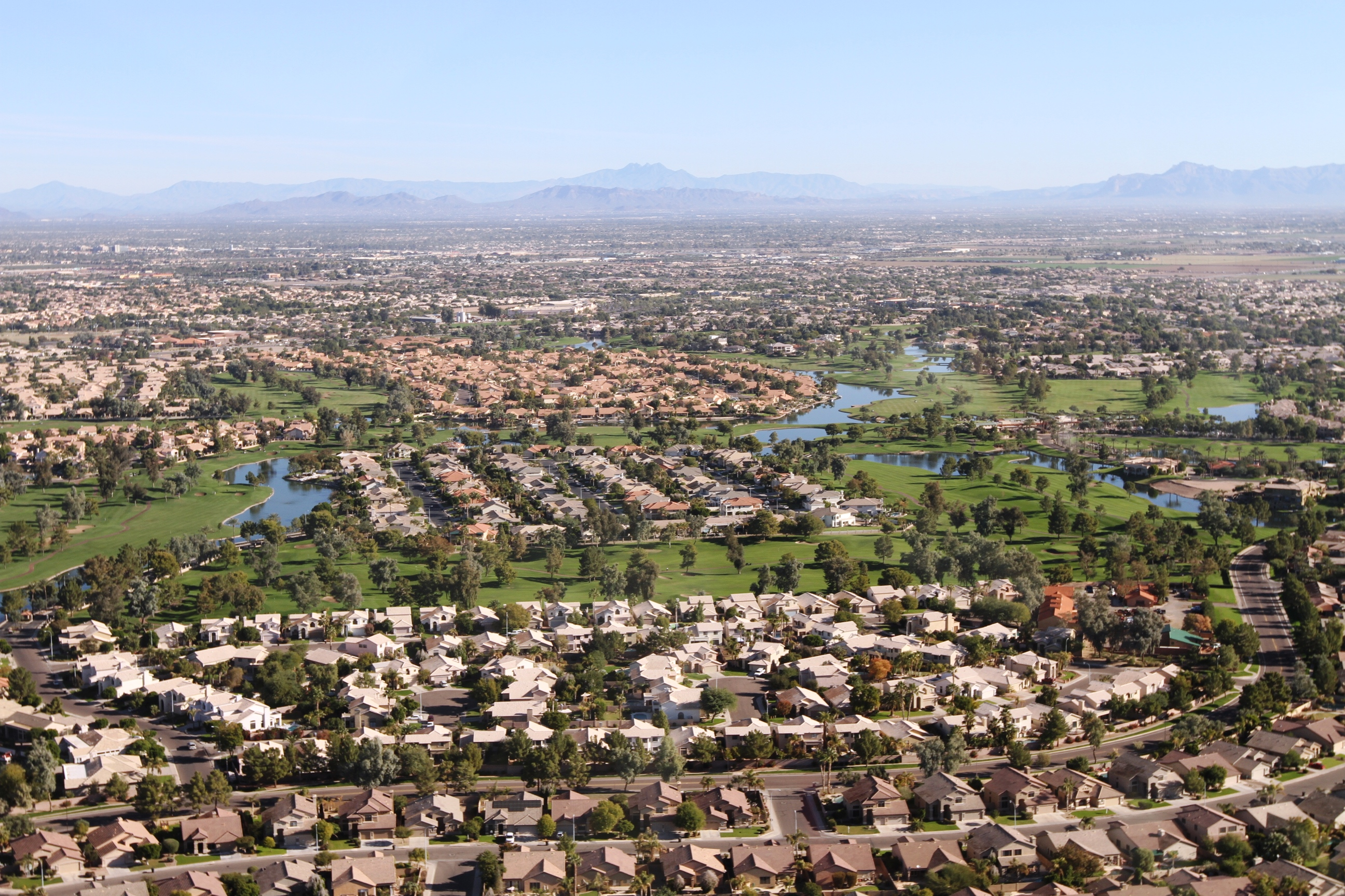 City of Chandler neighborhoods